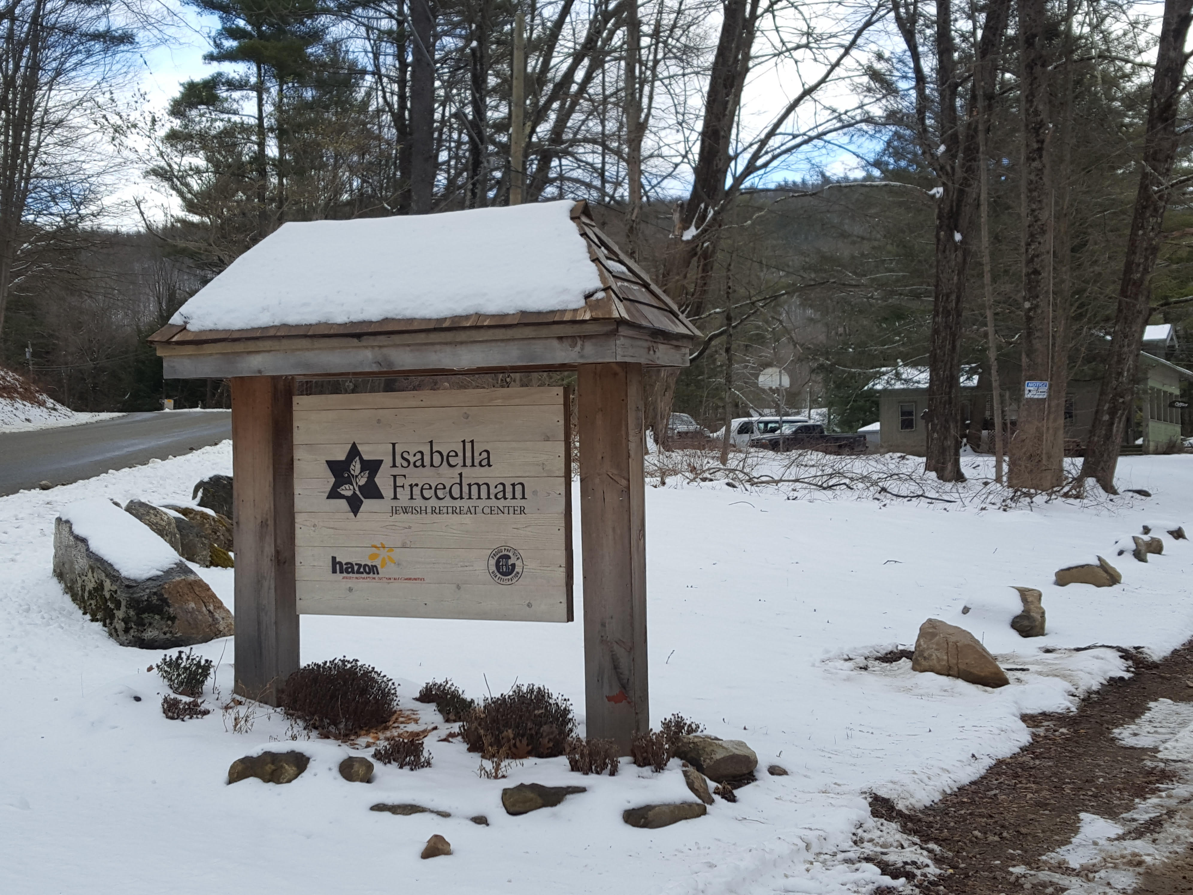 Entrance to Isabella Freedman Jewish Retreat Center at 116 Johnson Rd, Falls Village, Connecticut on January 19, 2020. Photograph Moriah Levin.